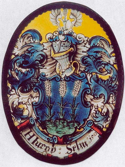 Sillem Coat of Arms, Jacobian Line